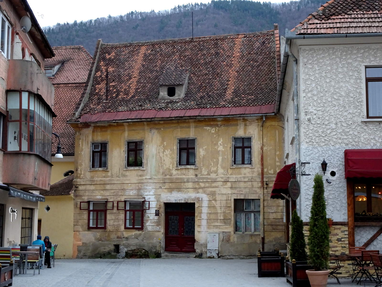 Piața Enescu in Brașov, house number 12